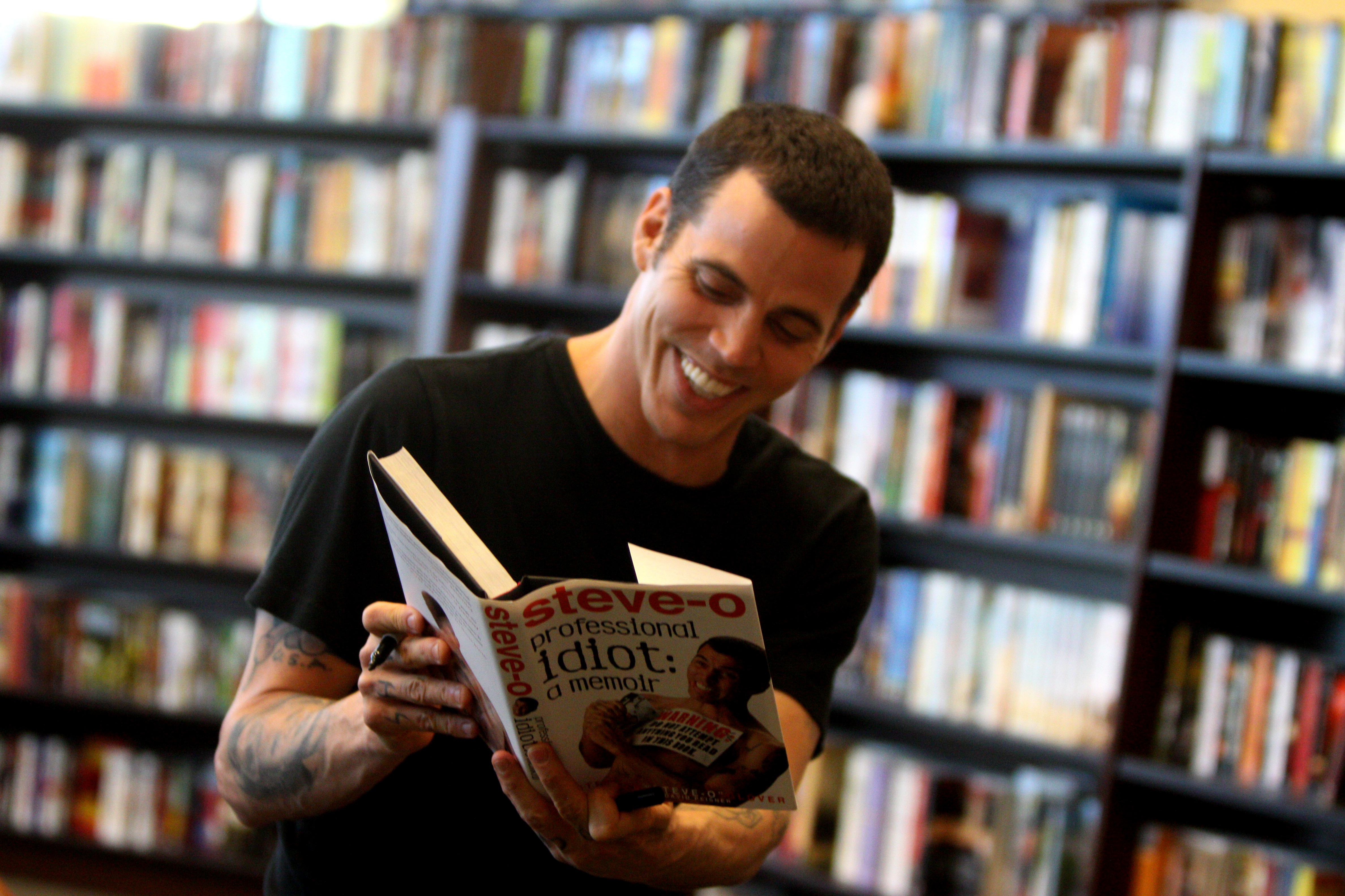 Steve-O, star of the MTV series Jackass, at a book signing in Phoenix, Arizona.